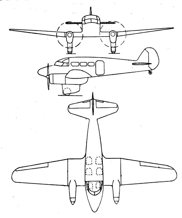 Percival Q.4 photo from L'Aerophile January 1938